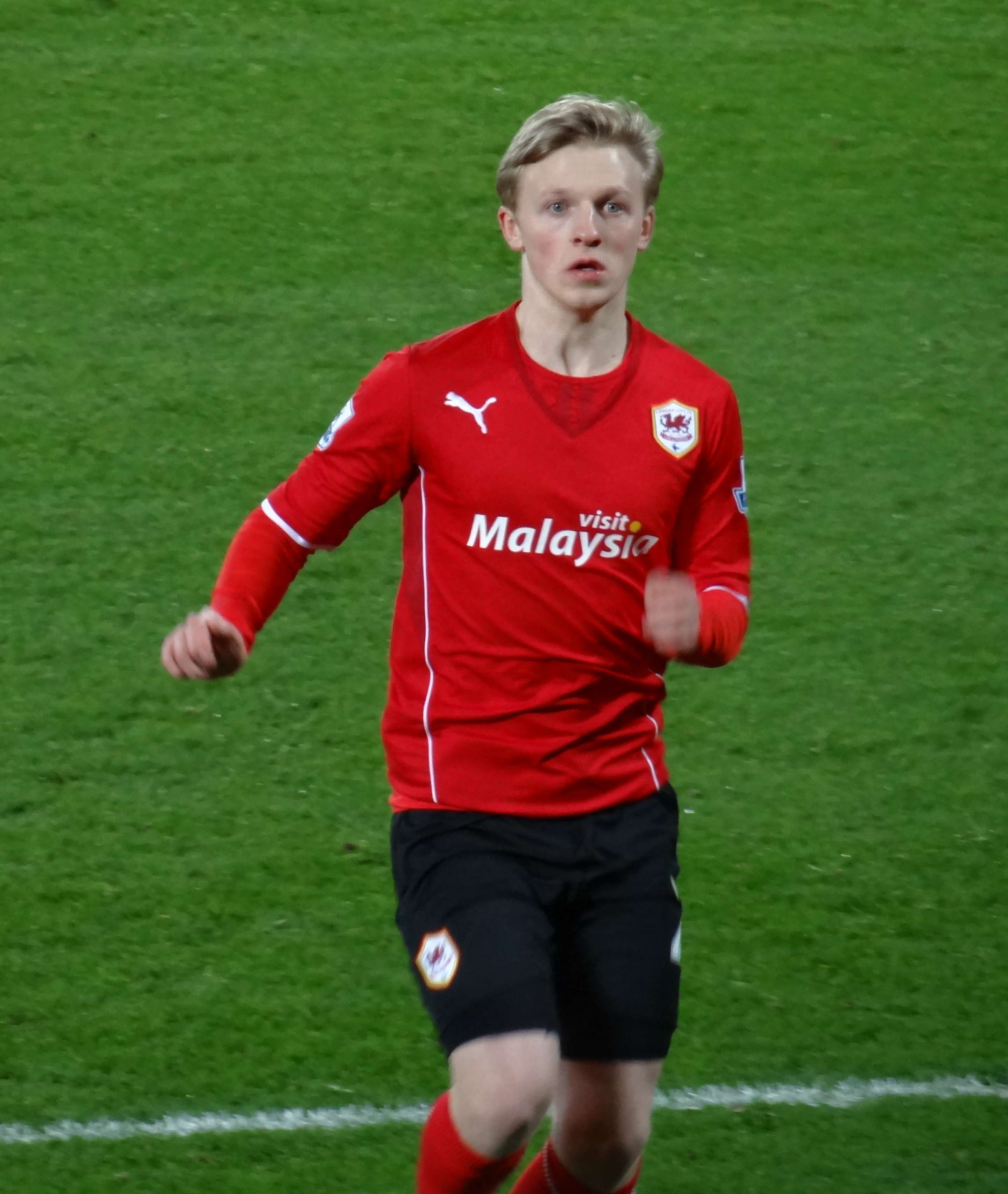 Mats Daehli playing for Cardiff City